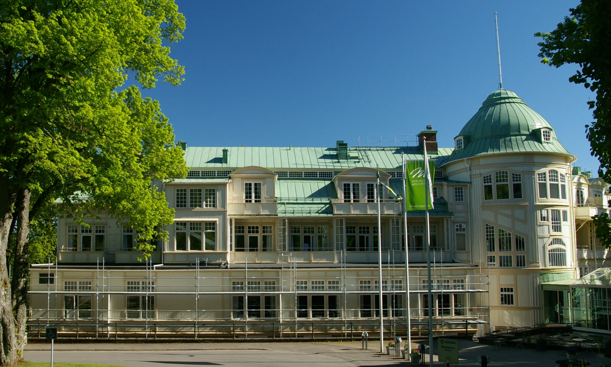 Mössebergs kurort (swedish: Mösseberg Spa) in Falköping, Västergötland, Sweden